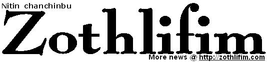 Zothlifim Logo